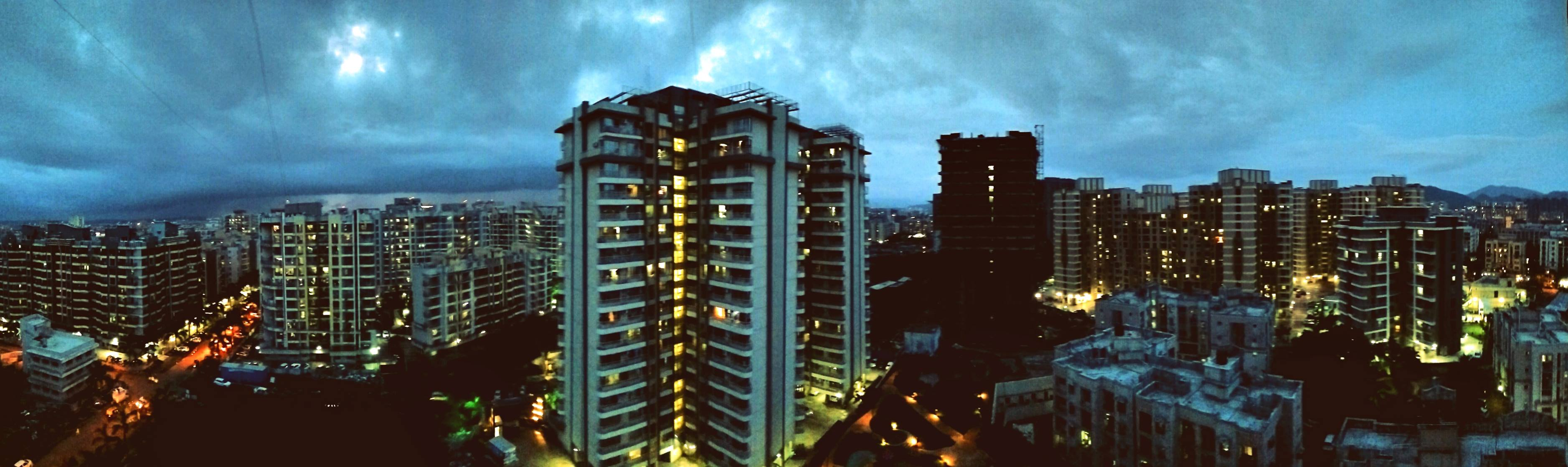 Mira Road Skyline as seen from Poonam Garden